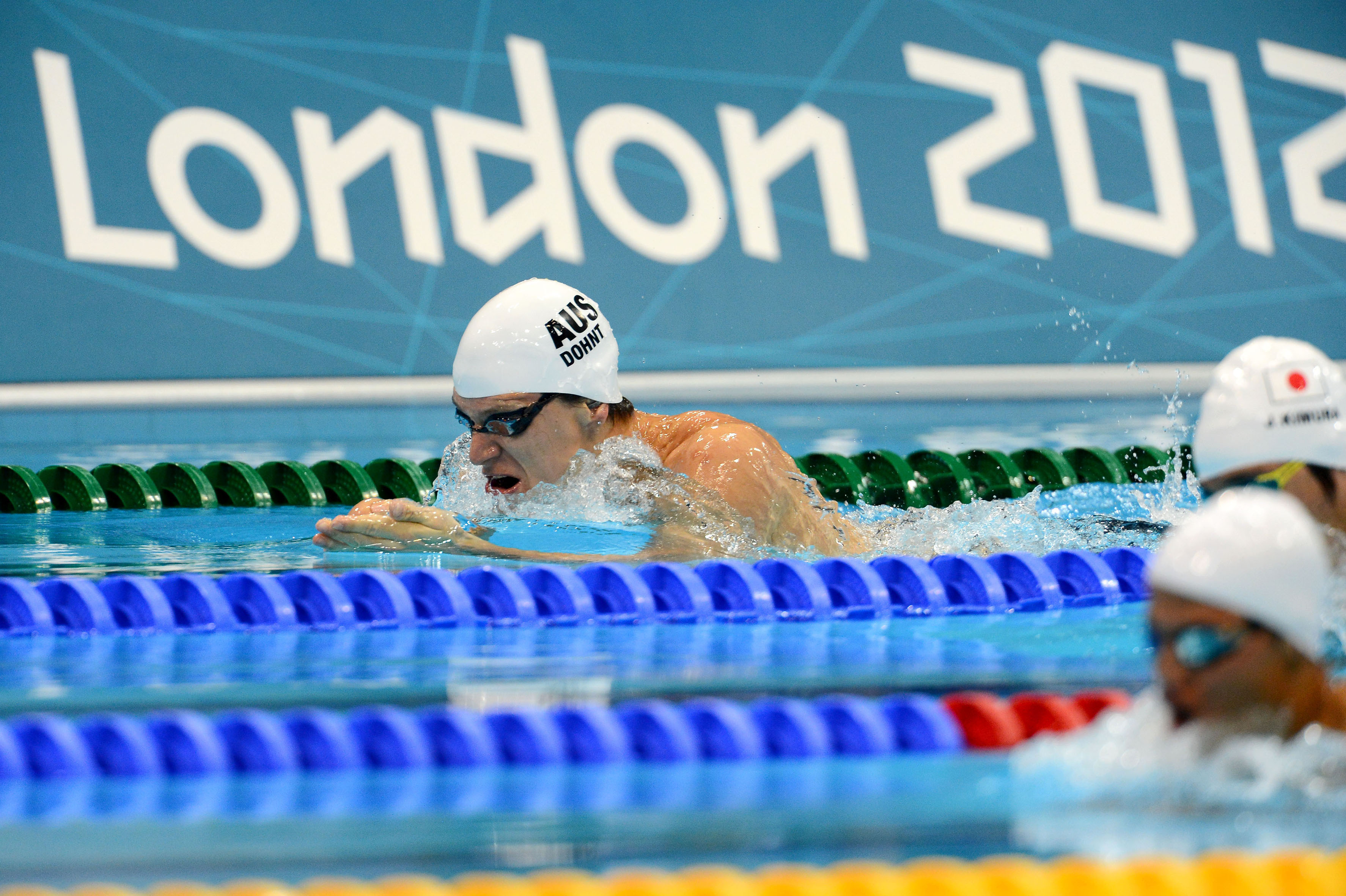 Photograph of Australian Paralympic team member Jay Dohnt at the 2012 Summer Paralympic Games in London